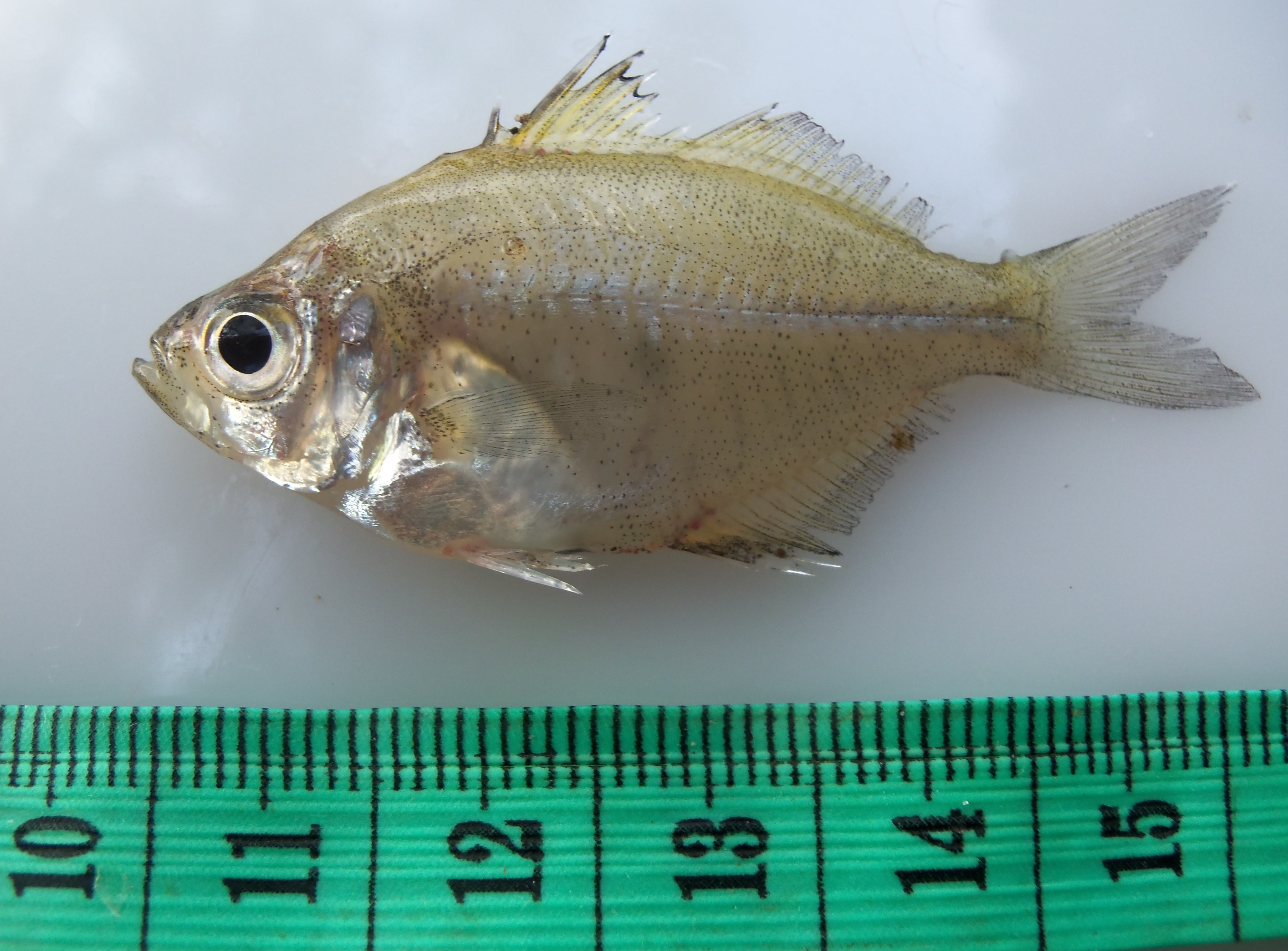 Indonesia, Toba Lake, 8-19-2014, 6.2 cm